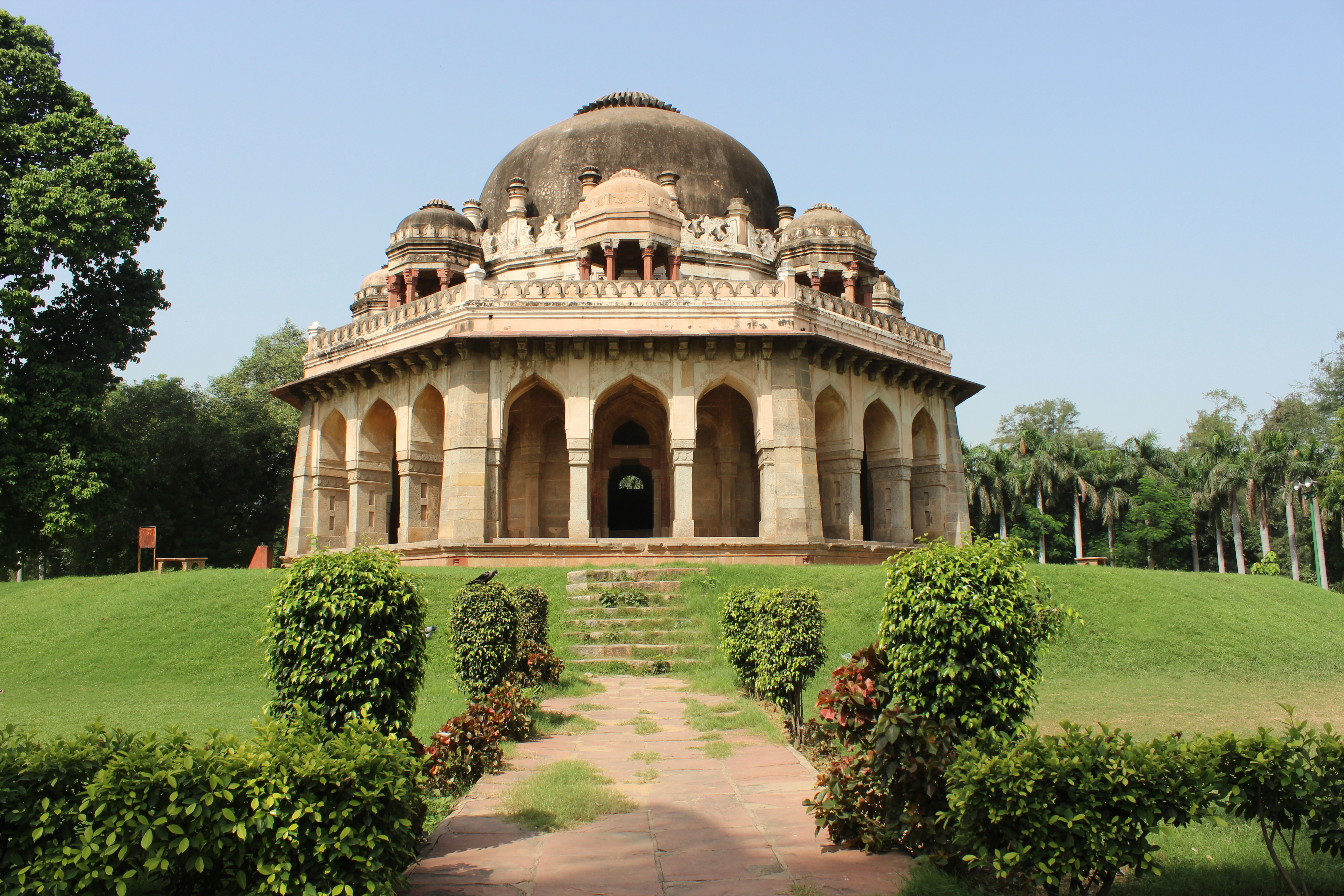 Lodhi Garden, New Delhi Sep.4.2013